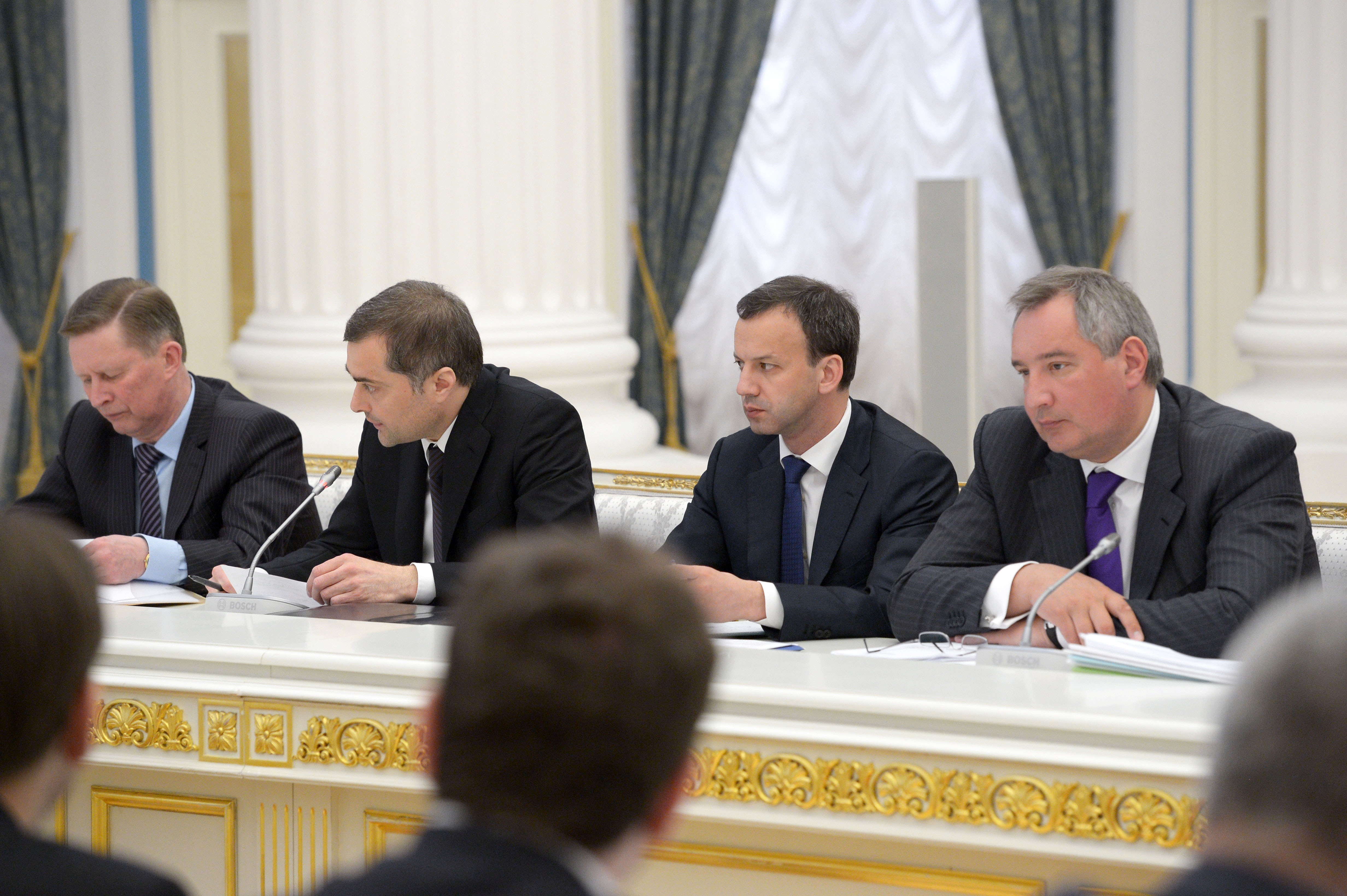 Head of the Presidential Administration Sergei Ivanov and Deputy Prime Minister Vladislav Surkov, Arkady Dvorkovich and Dmitry Rogozin